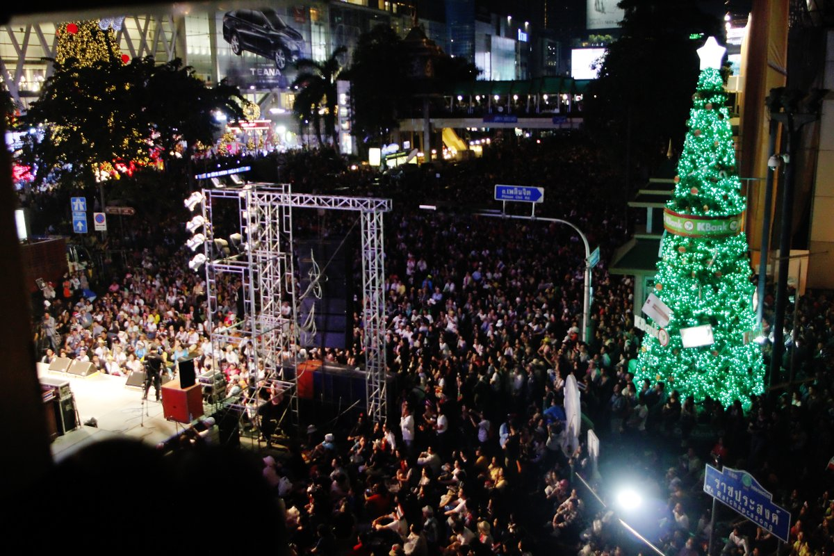 View from Skywalk on one of the anti-government protest sites against Phuea Thai government led by caretaker-PM Yingluck Shinawatra